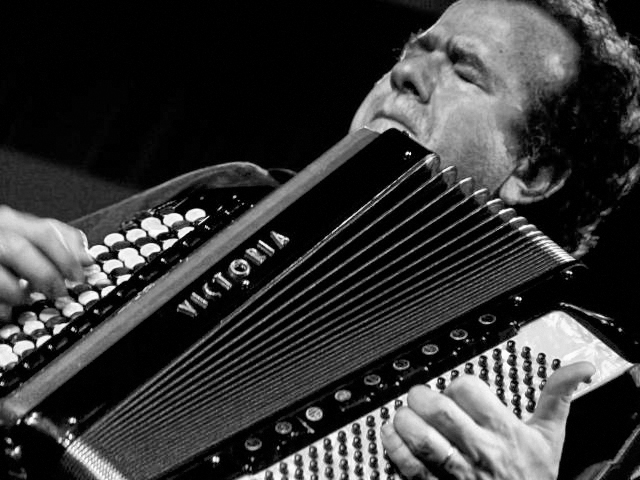 Richard Galliano